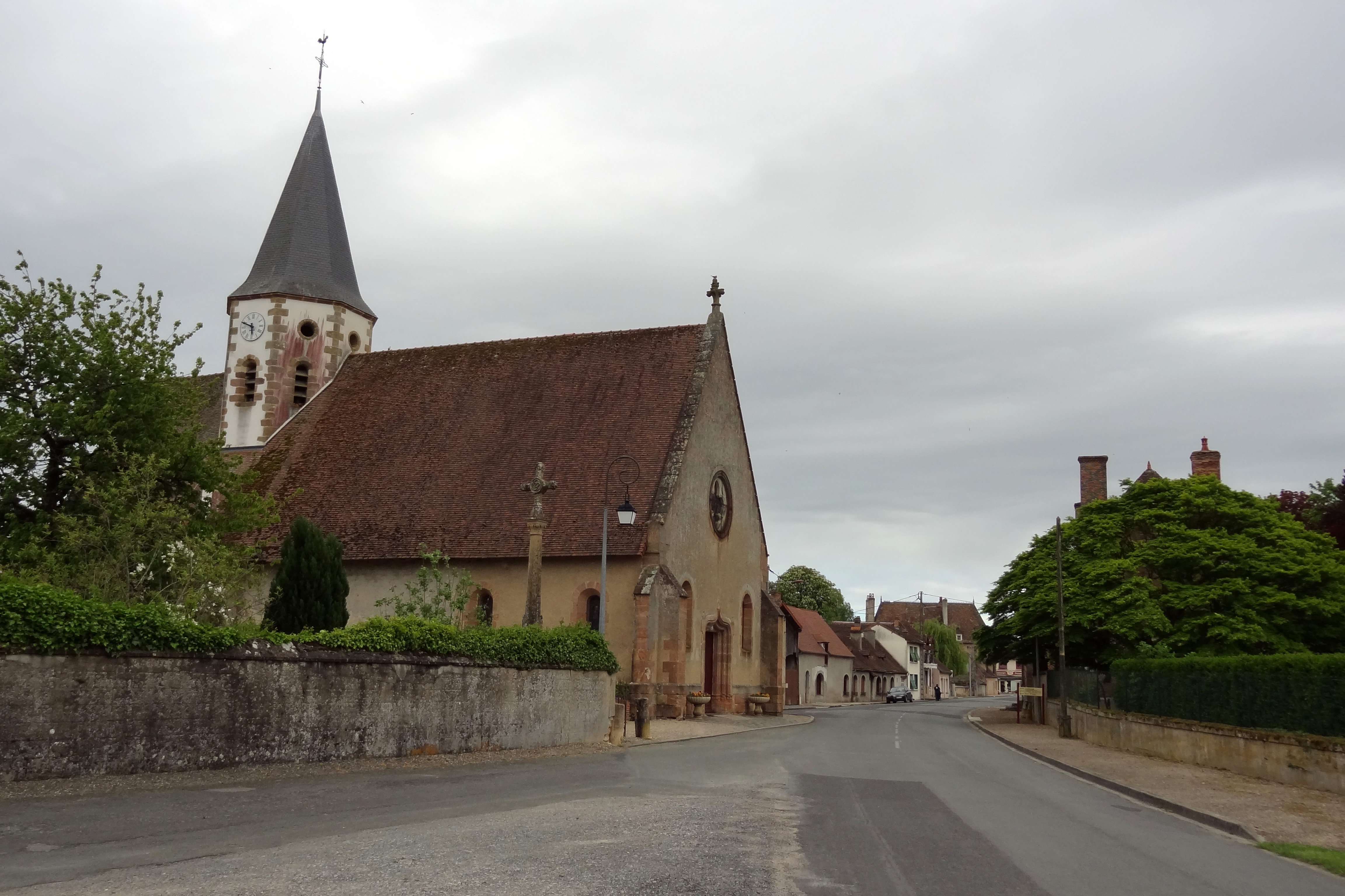 Saint-Sixte and Saint-Nizier church, Chevagnes, france